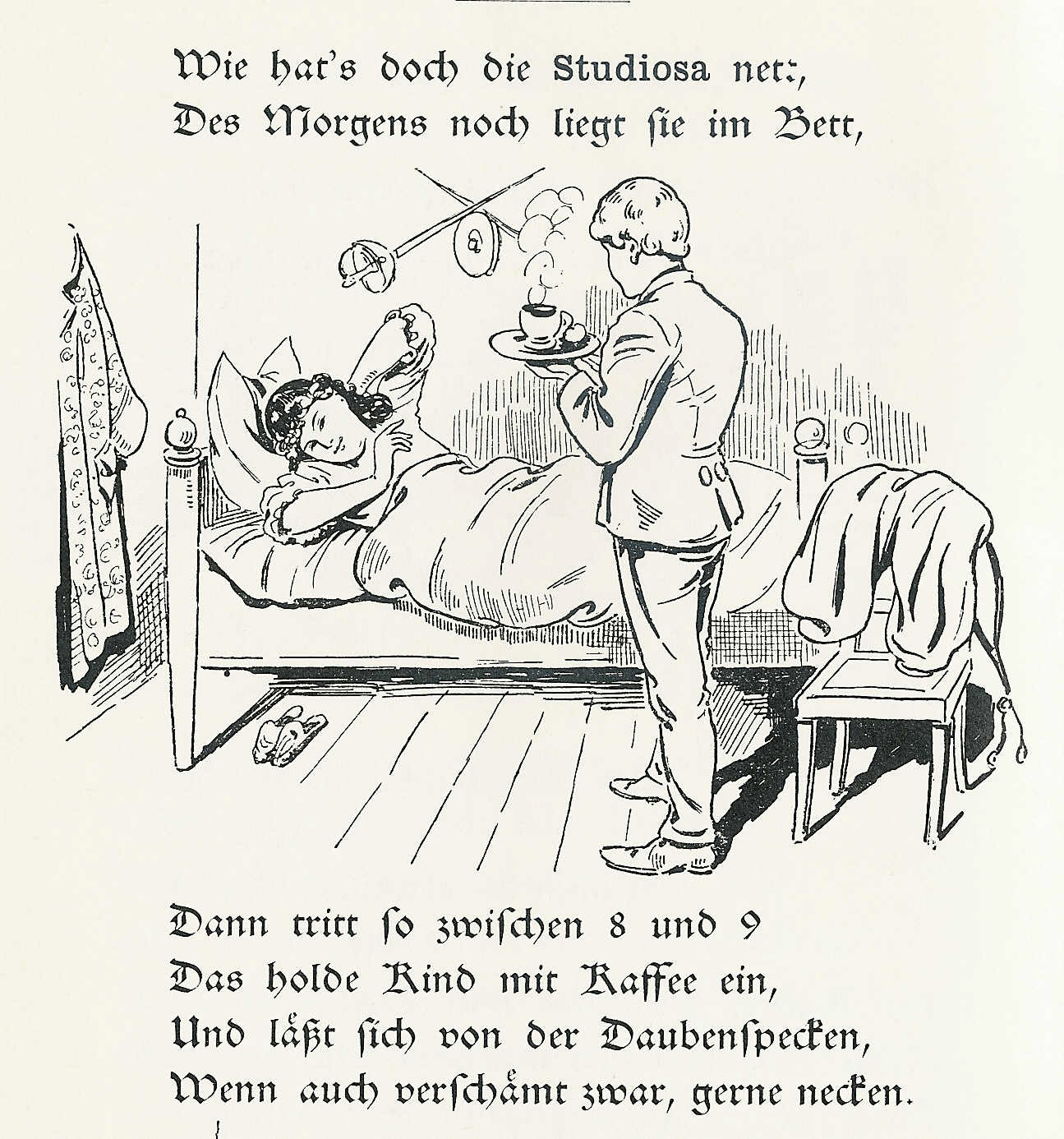 The filius hospitalis (the landlord's son), caricature of reversed genders in students' life 1899